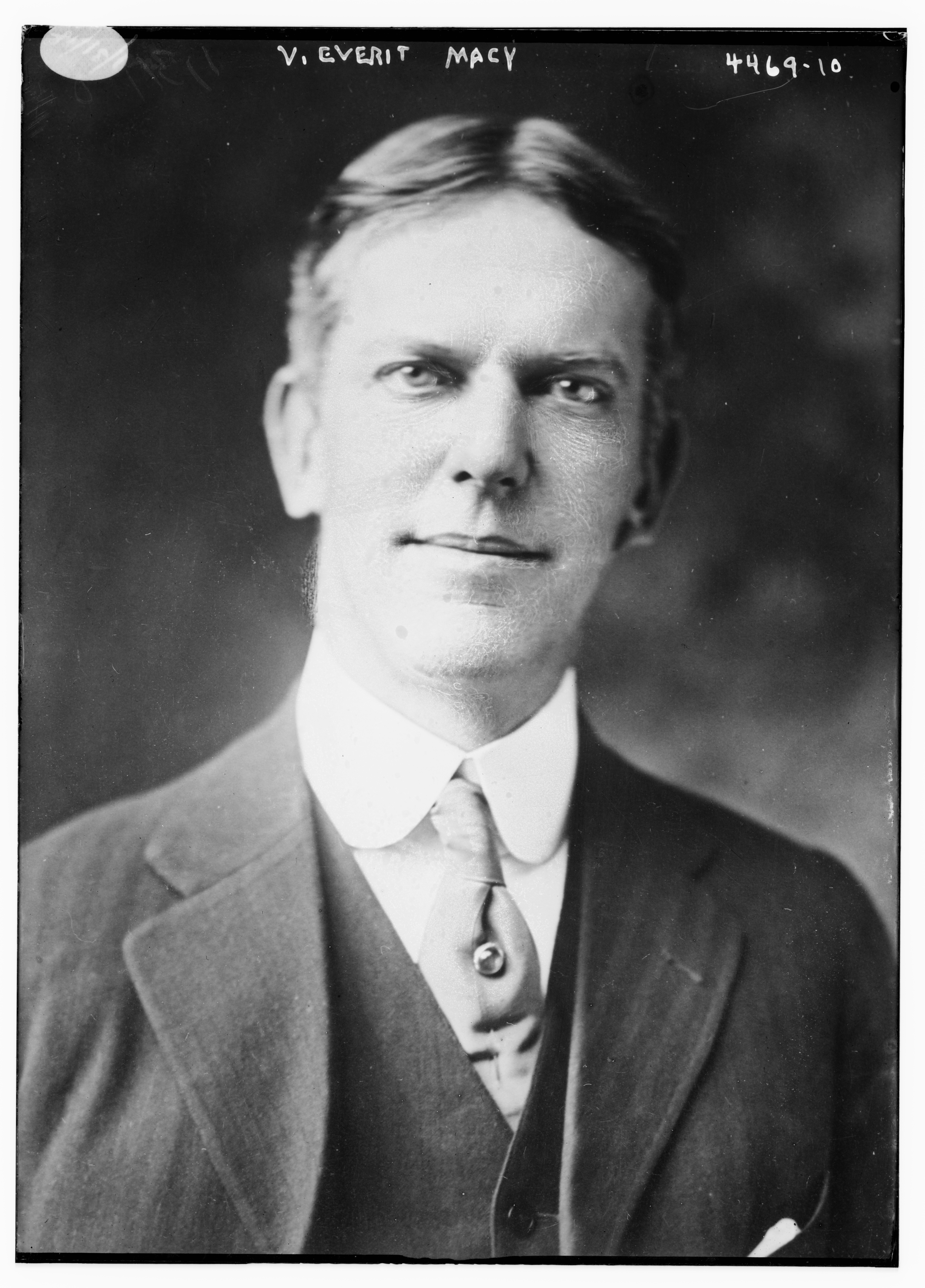 Valentine Everit Macy (1871-1930) in 1918